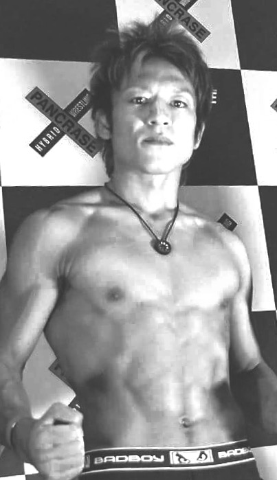 Achievement of effort